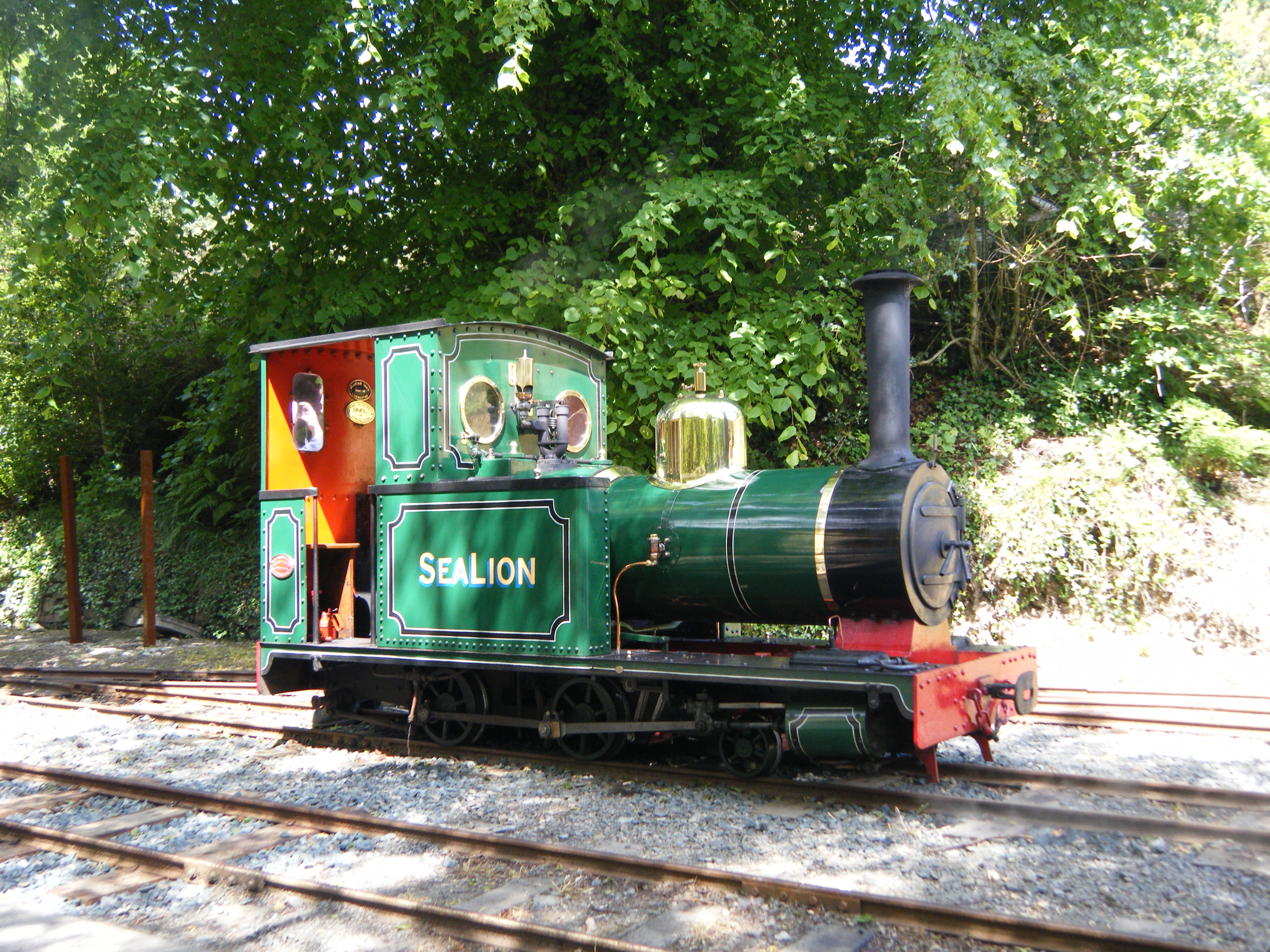 Bagnall-built locomotive "Sea Lion" on shed at Lhen Coan on the Groudle Glen Railway.